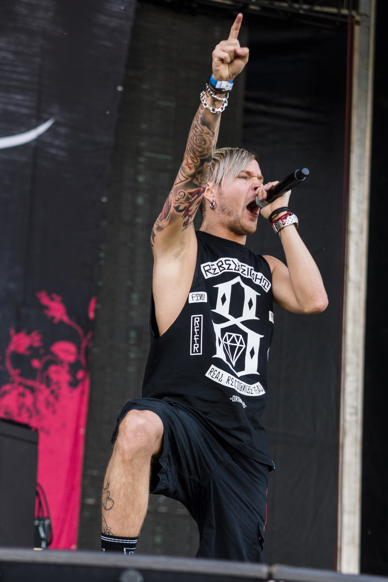 Christoffer “Stoffe” Andersson, vocalist of Dead by April band. Ursynalia 2013 Warsaw Student Festival, Poland.